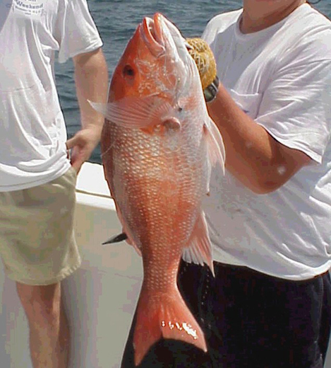 A fisherman holds up his red snapper, Lutjanus campechanus, catch